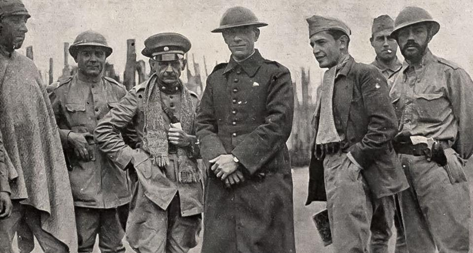 Then colonel Milton de Freitas Almeida (in the center) with his troops in Itapetininga, São Paulo, in September 1932, during the Constitutionalist Revolution.